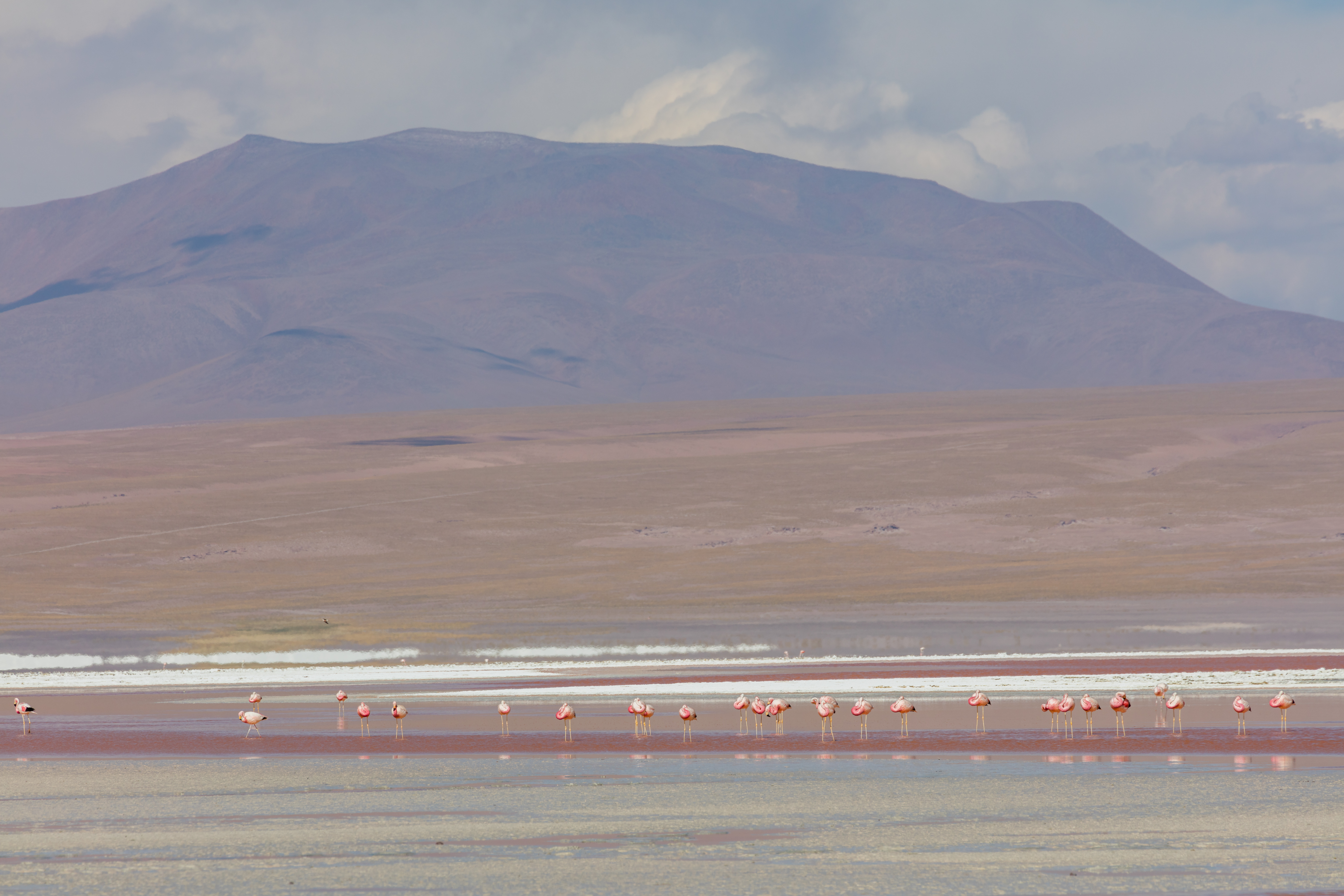 Andean flamingos (Phoenicoparrus andinus), Laguna Colorada, Bolivia